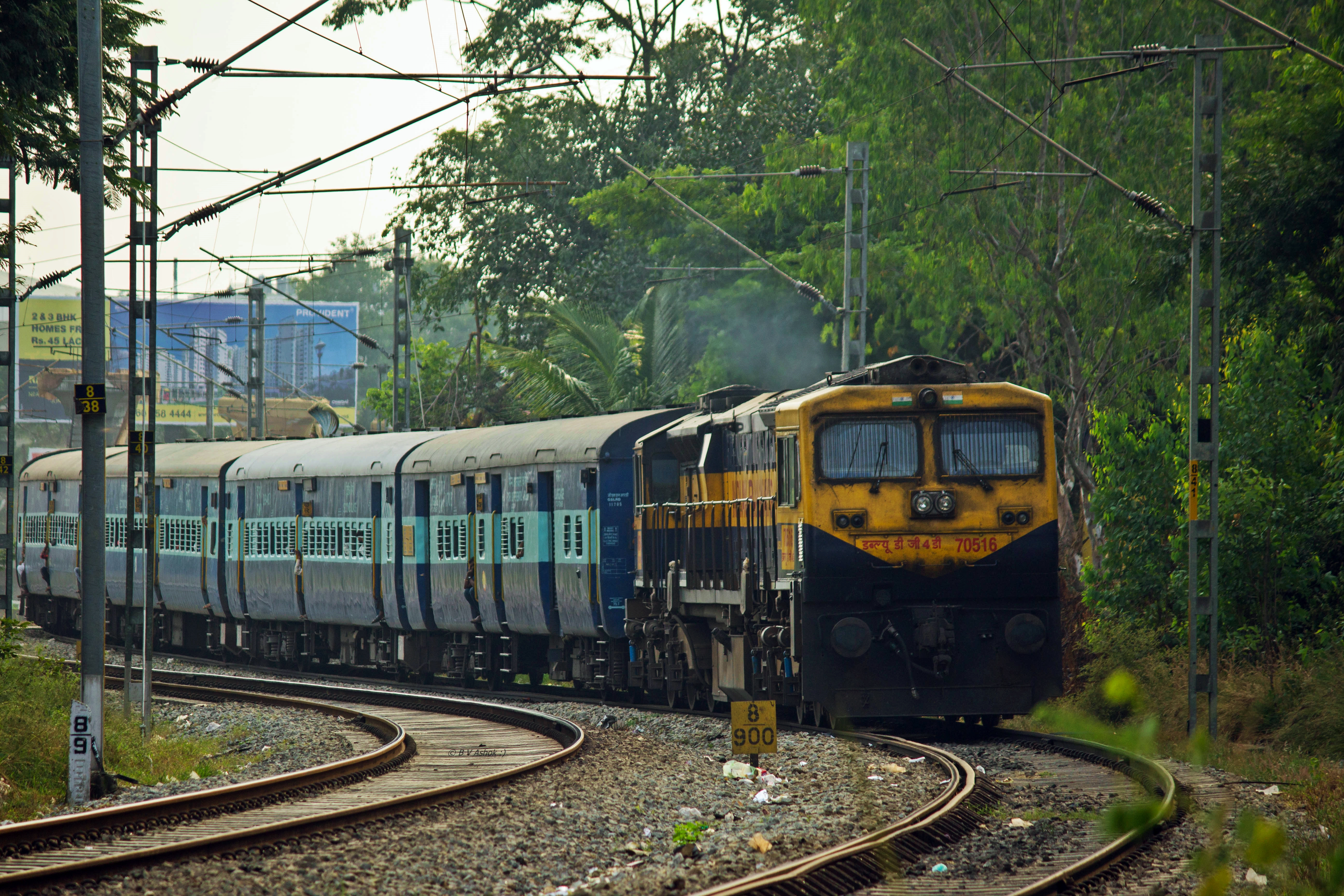 UBL WDG-4D 70516 negotiating a 'S' shaped curve to enter Jnanabharathi station with 17307 Mysore - Bagalkot Basava Express...